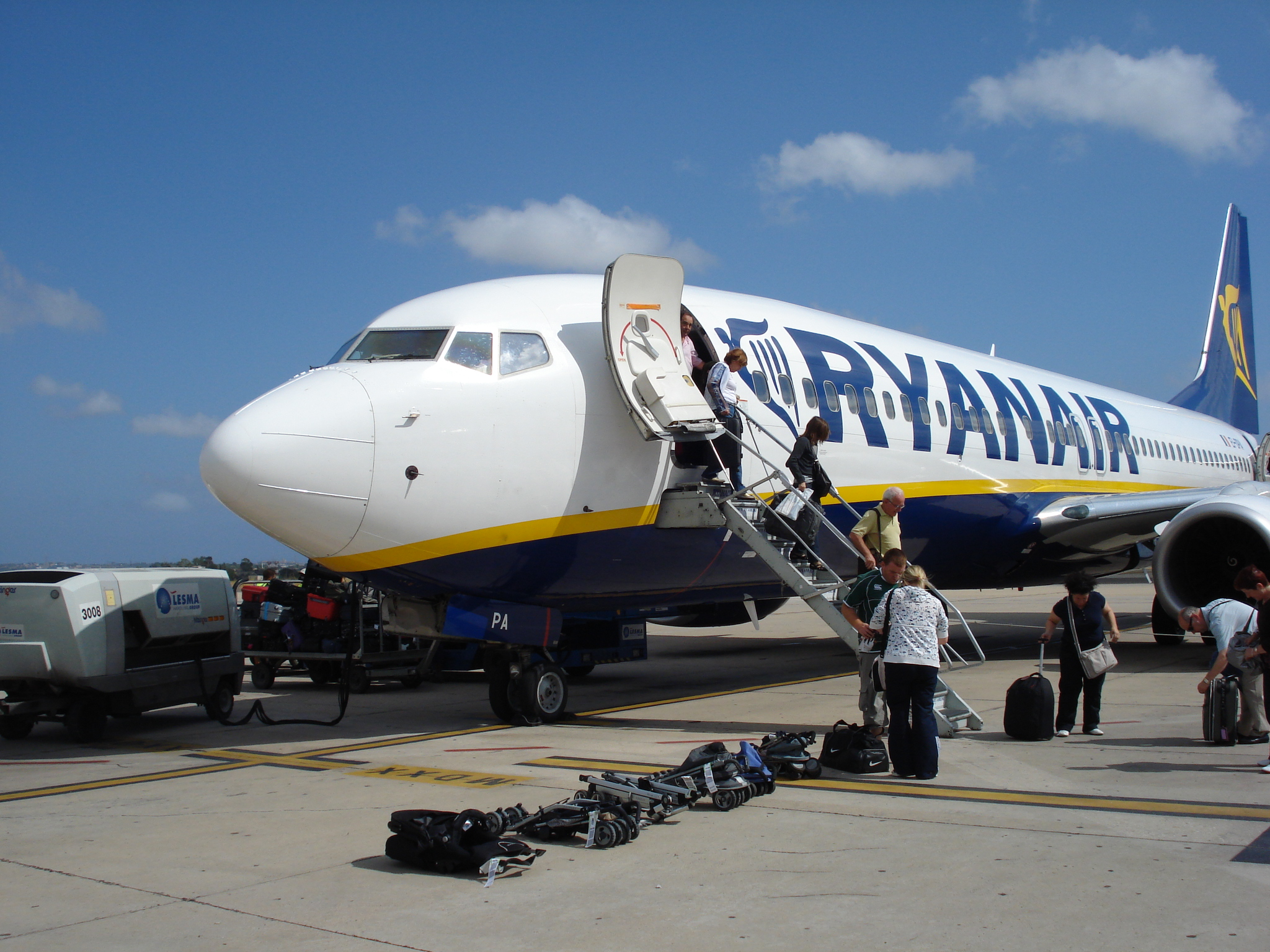 Boeing 737-800 Ryanair in Reus Airport.